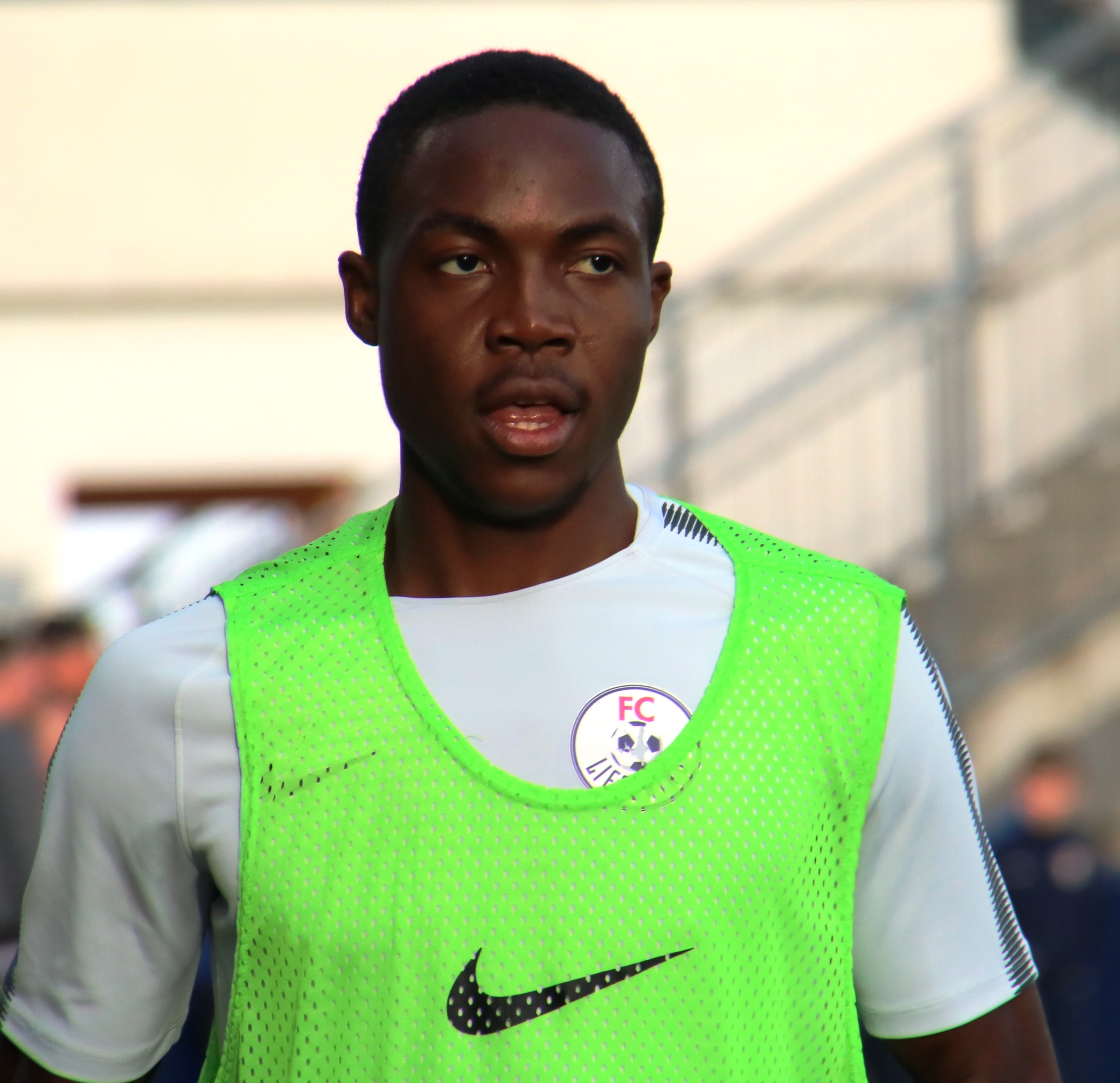 league match 26th round Austria 2nd league